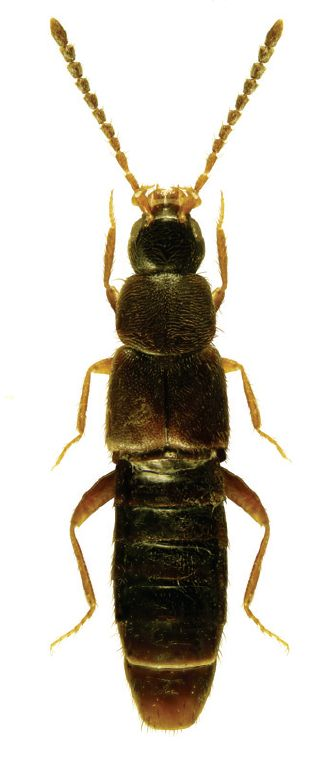 Schistoglossa blatchleyi